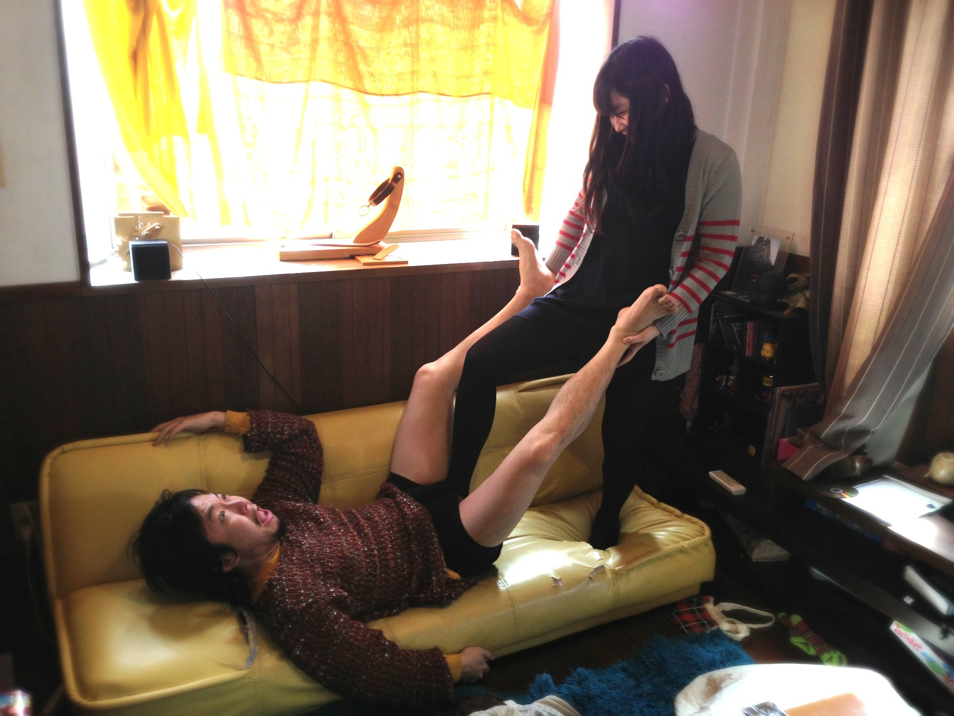 Situation in which actually carried out the electrical massage